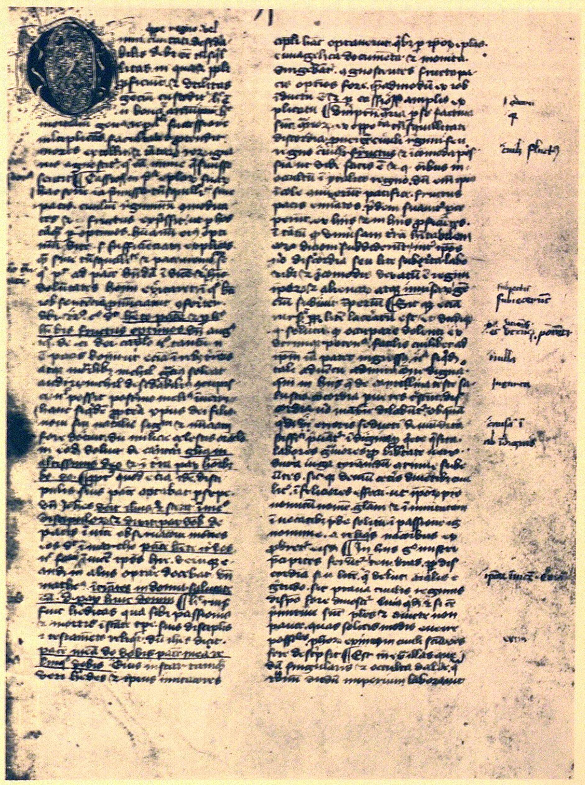 The beginning of the Defensor pacis in the manuscript Turin, Biblioteca Reale, 121, fol. 1r.